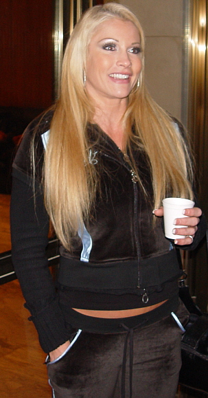 Professional wrestler Rena Mero, also known by her stage name Sable, during WWE's Christmas time visit to Baghdad in 2003.